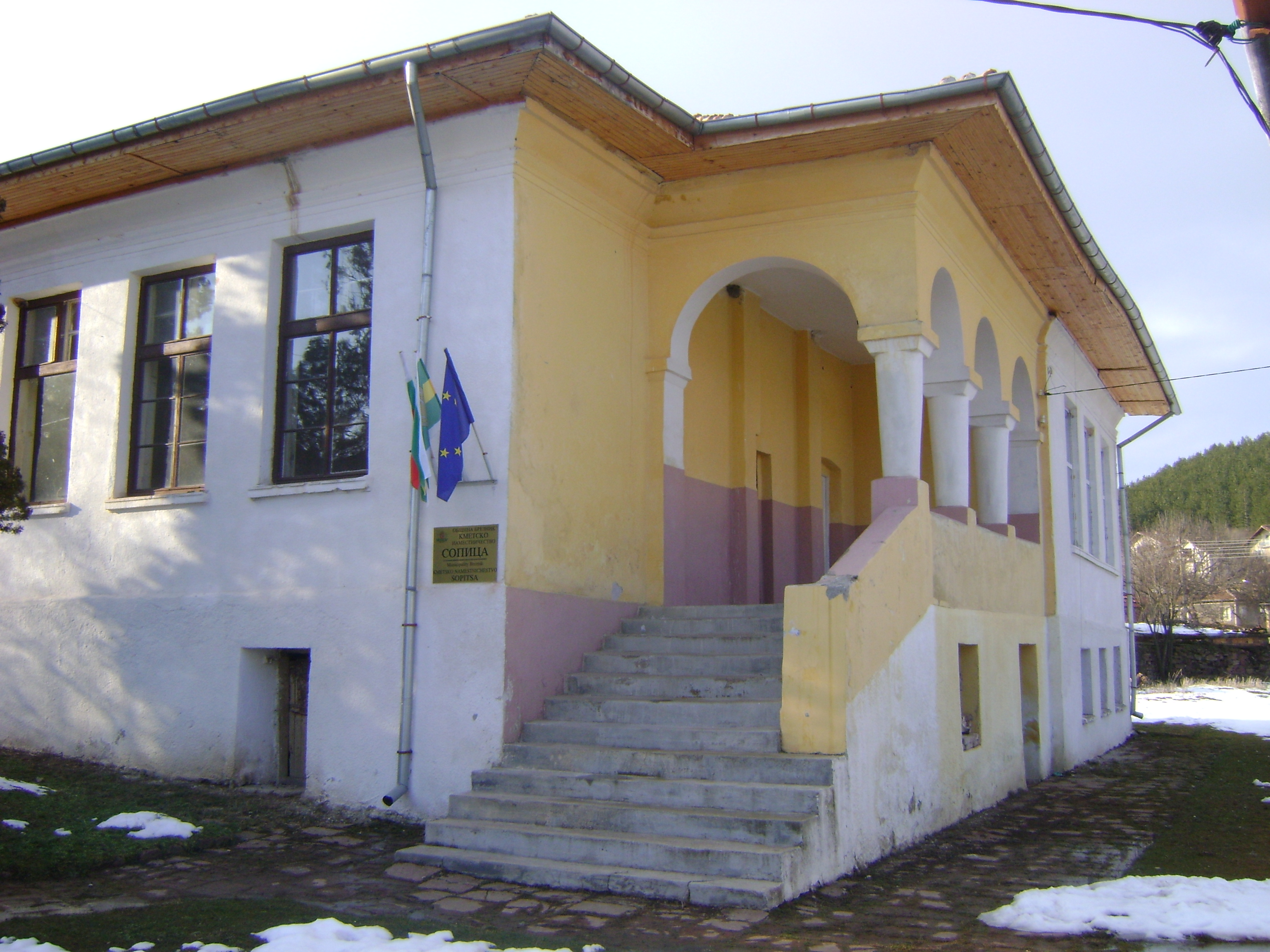 The school in village Sopitsa, Bulgaria